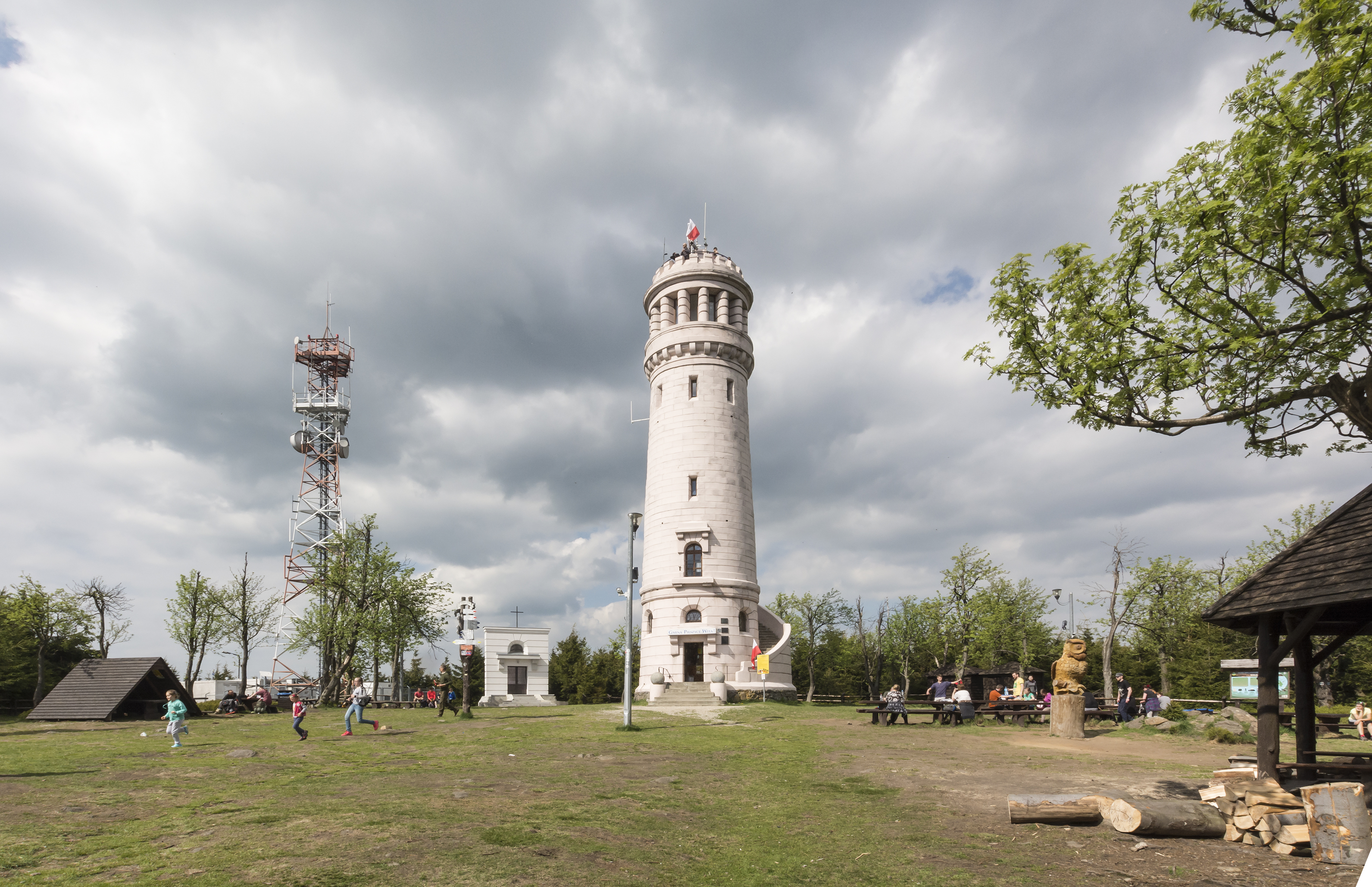 Bismarck tower on Wielka Sowa